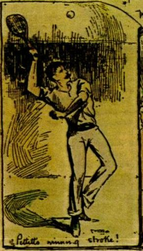 Tom Pettitt at the Real Tennis World Championship, 1890, Dublin Caption: "Pettitt's winning stroke!" Cropt from larger image.